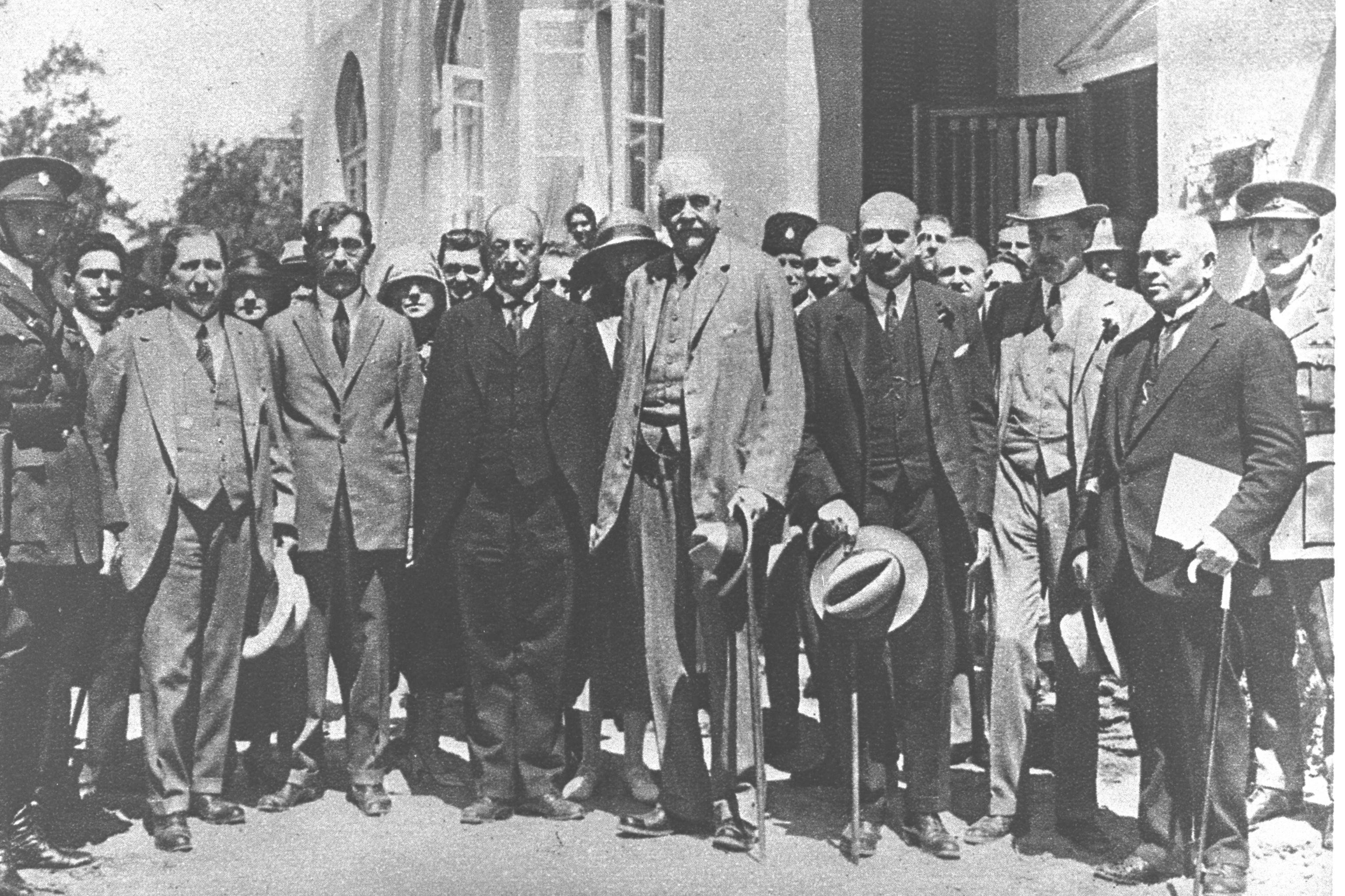 LORD BALFOUR (CENTER) VISITING TEL AVIV. ביקור הלורד בלפור (במרכז) בתל אביב.